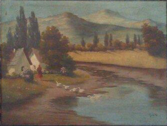 Painting of Czillich Anna (1899-1923)